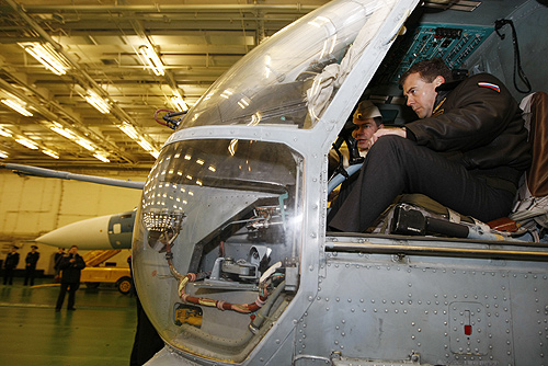 BARENTS SEA. In the cabin of a Ka-27 anti-ship helicopter on board the Aircraft Carrier Admiral Kuznetsov.